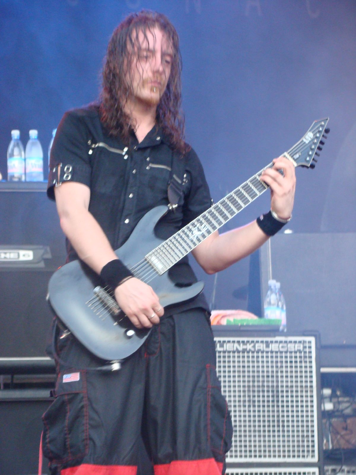 Marco Maus Biazzi of Lacuna Coil